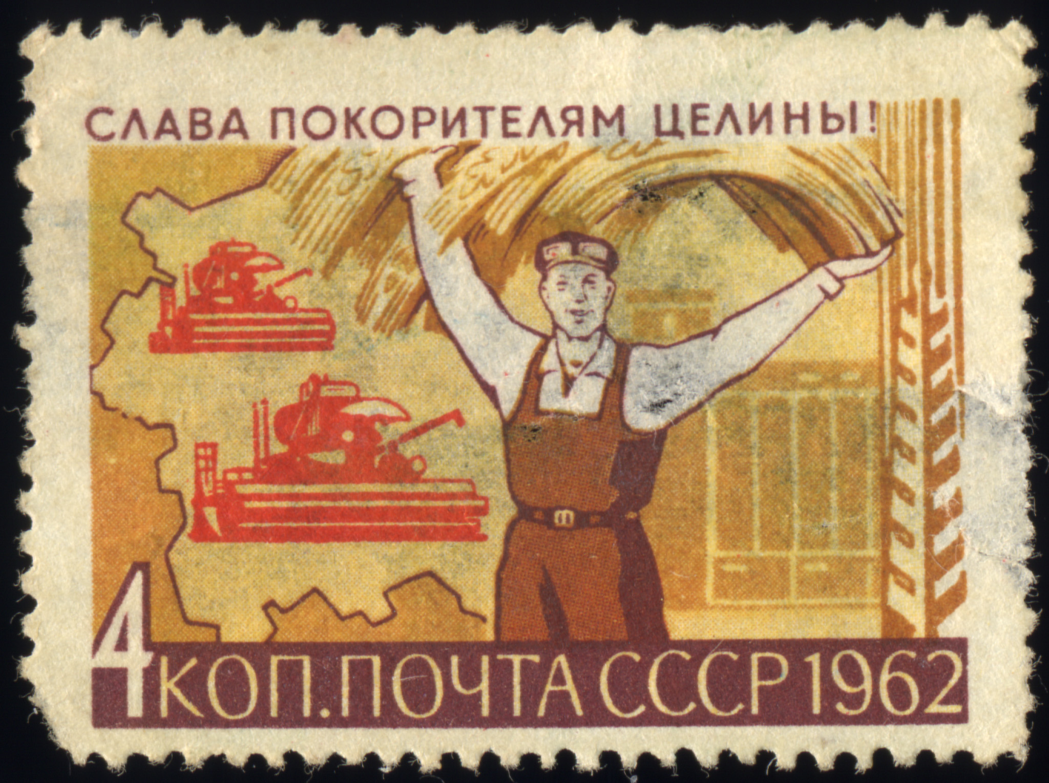 1962 Soviet Union 4 kopeks stamp. Hail to Conquerors of Virgin Soil!